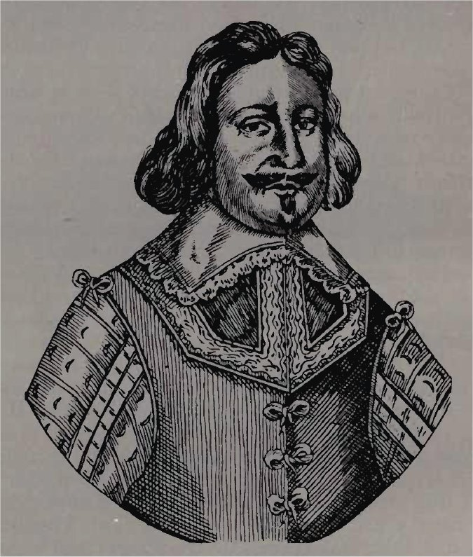 Ferdinando Fairfax, 2nd Lord Fairfax of Camero